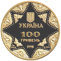 Coin of Ukraine